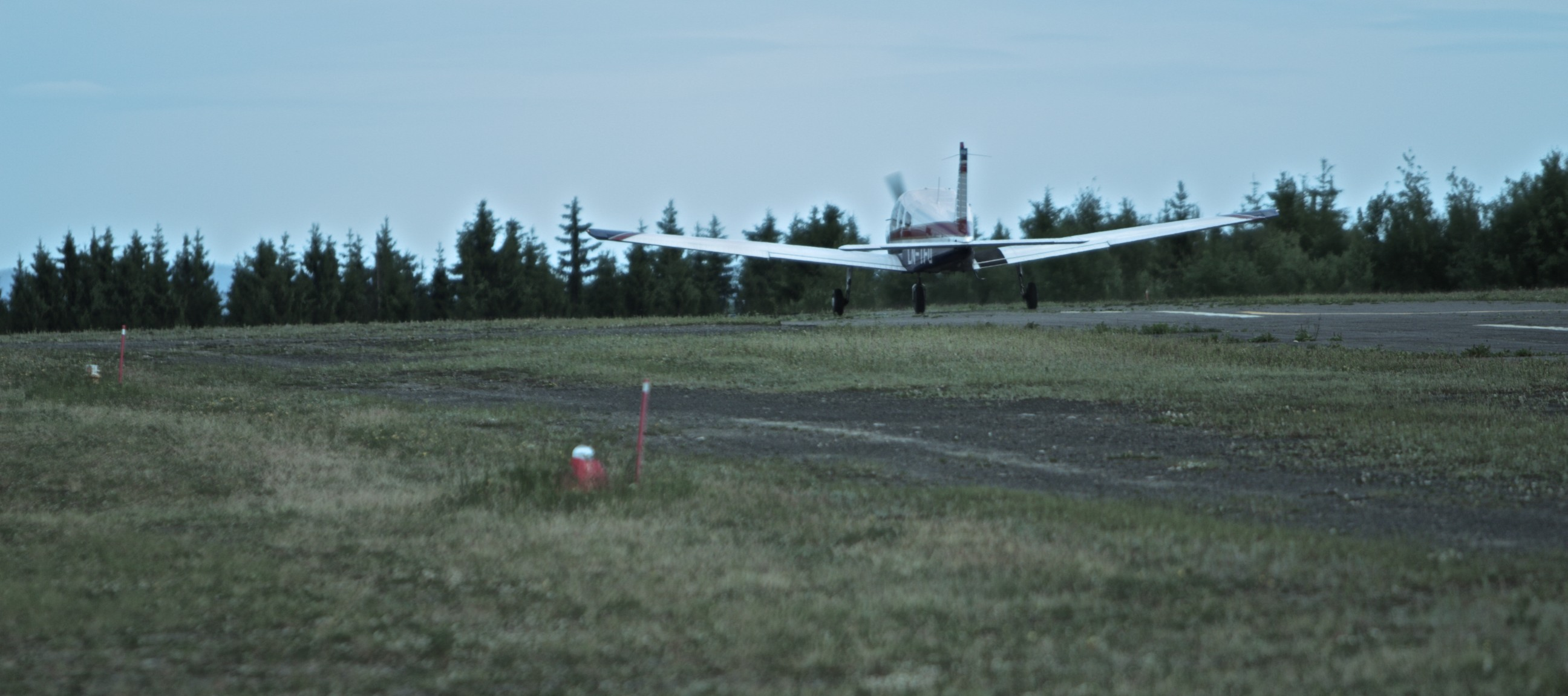 landing contest Landing contest at Hamar Airport, Stafsberg in Norway